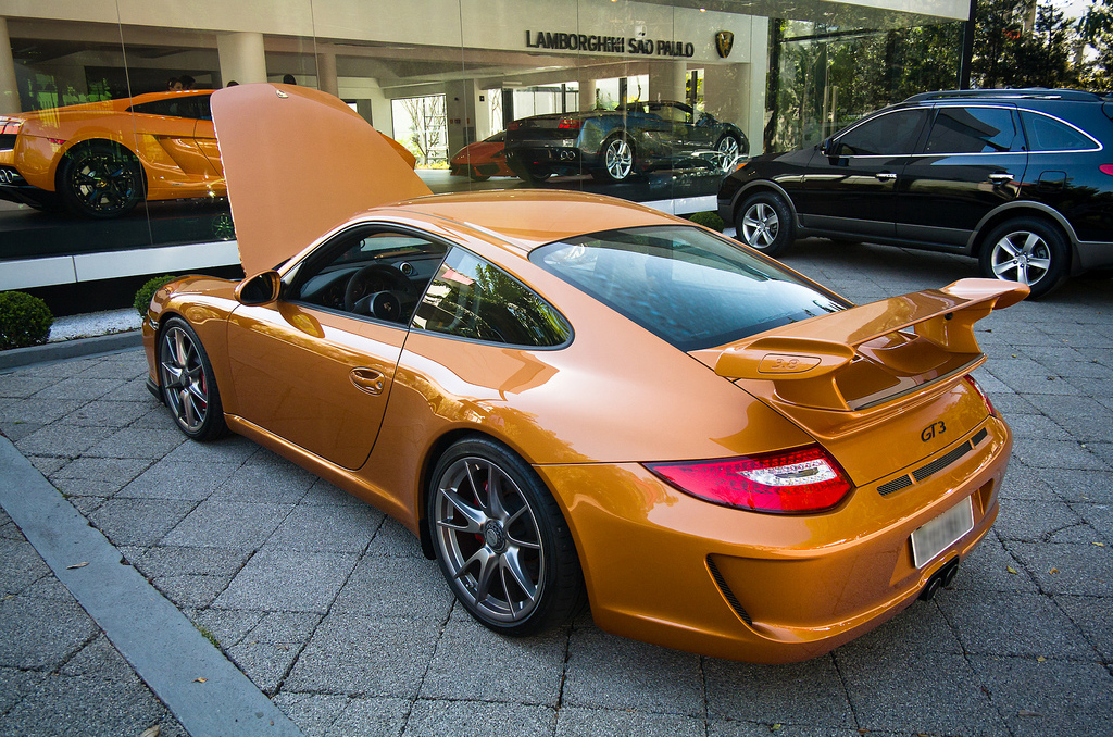 Ochre Porsche 997 GT3 3.8. in front of the Lamborghini São Paulo dealership.